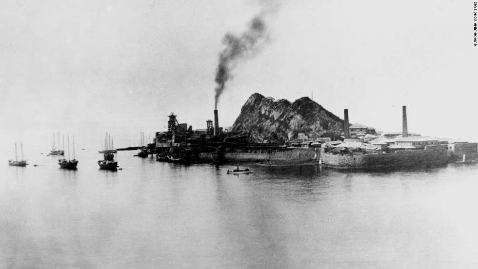 Hashima(Gunkanjima) circa 1930